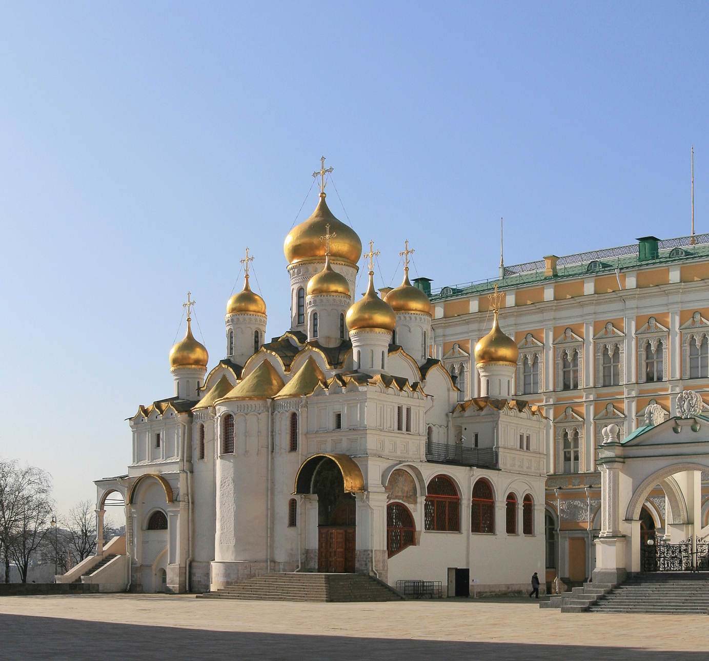 Moscow Kremlin, Annunciation Cathedral